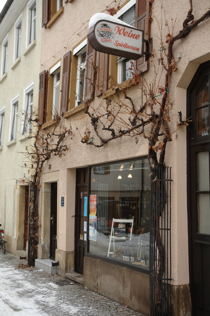 A grapewine in front of the wine house Schmid in Jakobsgasse 22, Tübingen (Germany).